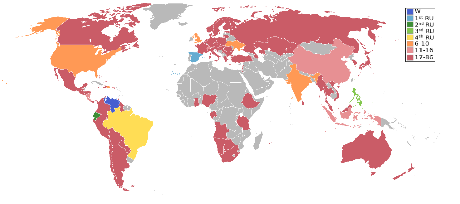 Worlwide map with MU 2013 results